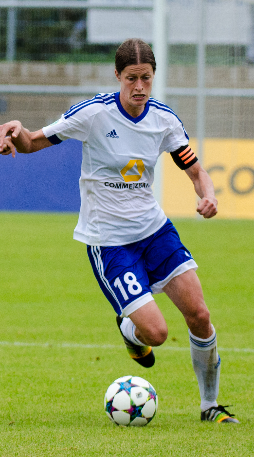 Match of the German Women's Football Bundesliga between 1.FFC Frankfurt and 1. FFC Turbine Potsdam, 2015-09-13